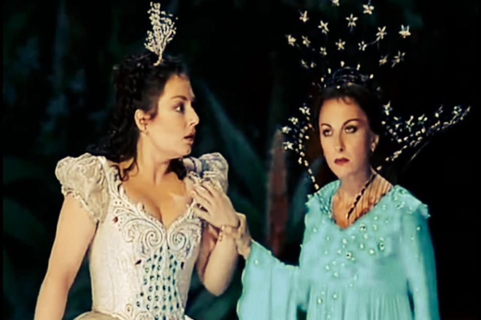 natalie dessay magic flute; queen of the night; გადღებულია ჩემს მიერ